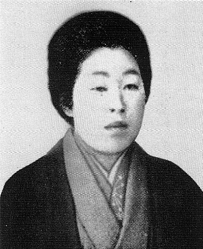 Haruko Kunikida (1879 - 1962) was a Japanese authoress.